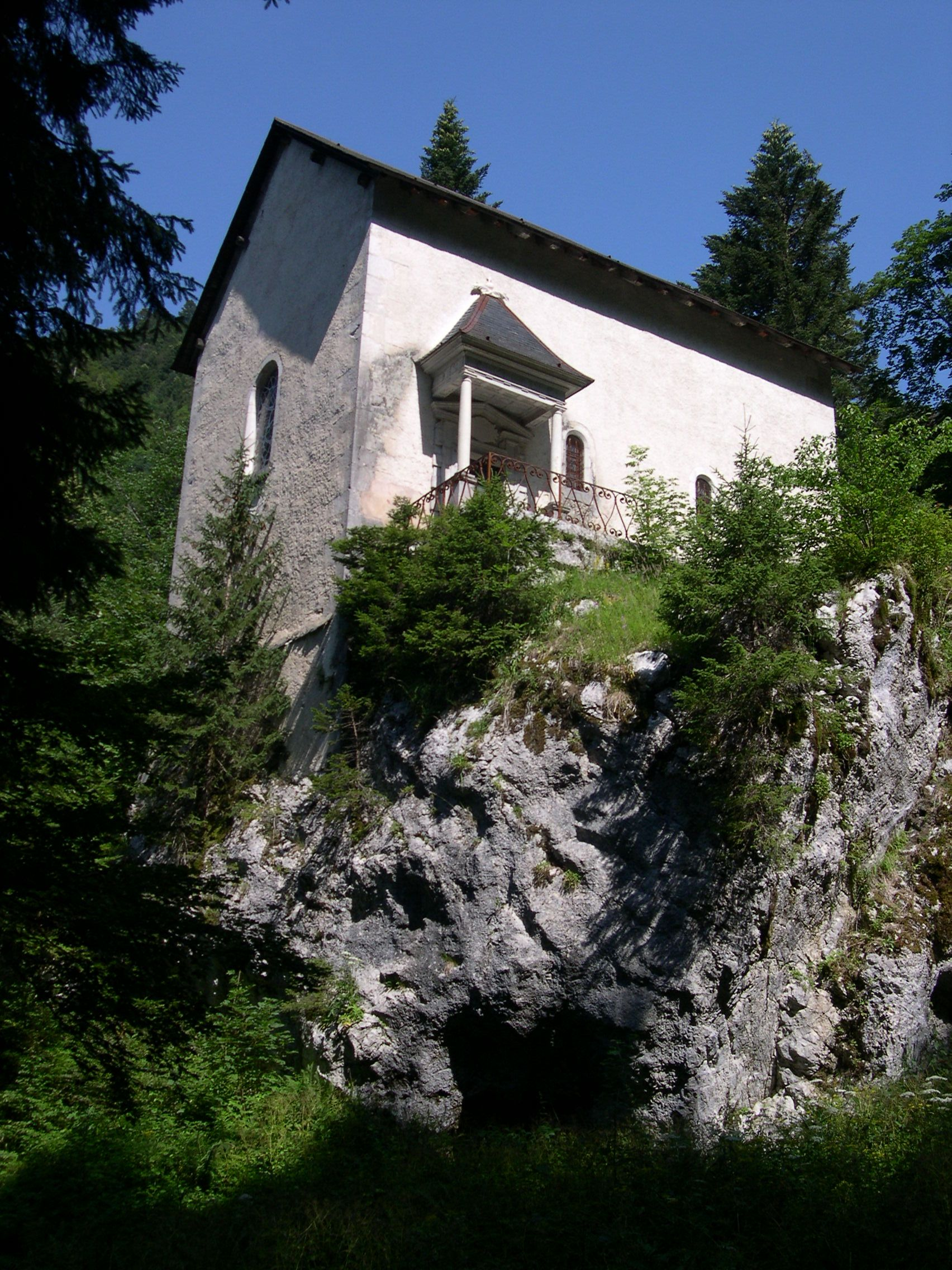 Saint Bruno chapel, near the monastery of the Grande Chartreuse